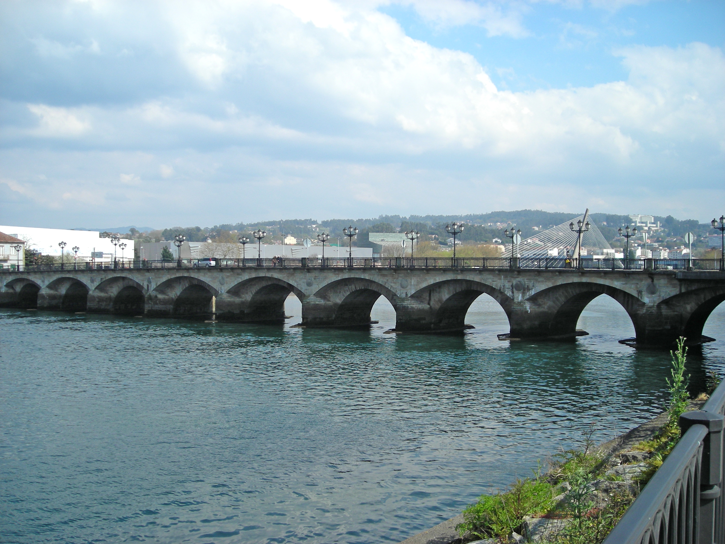 Burgo bridge - Pontevedra - Galicia - Spain